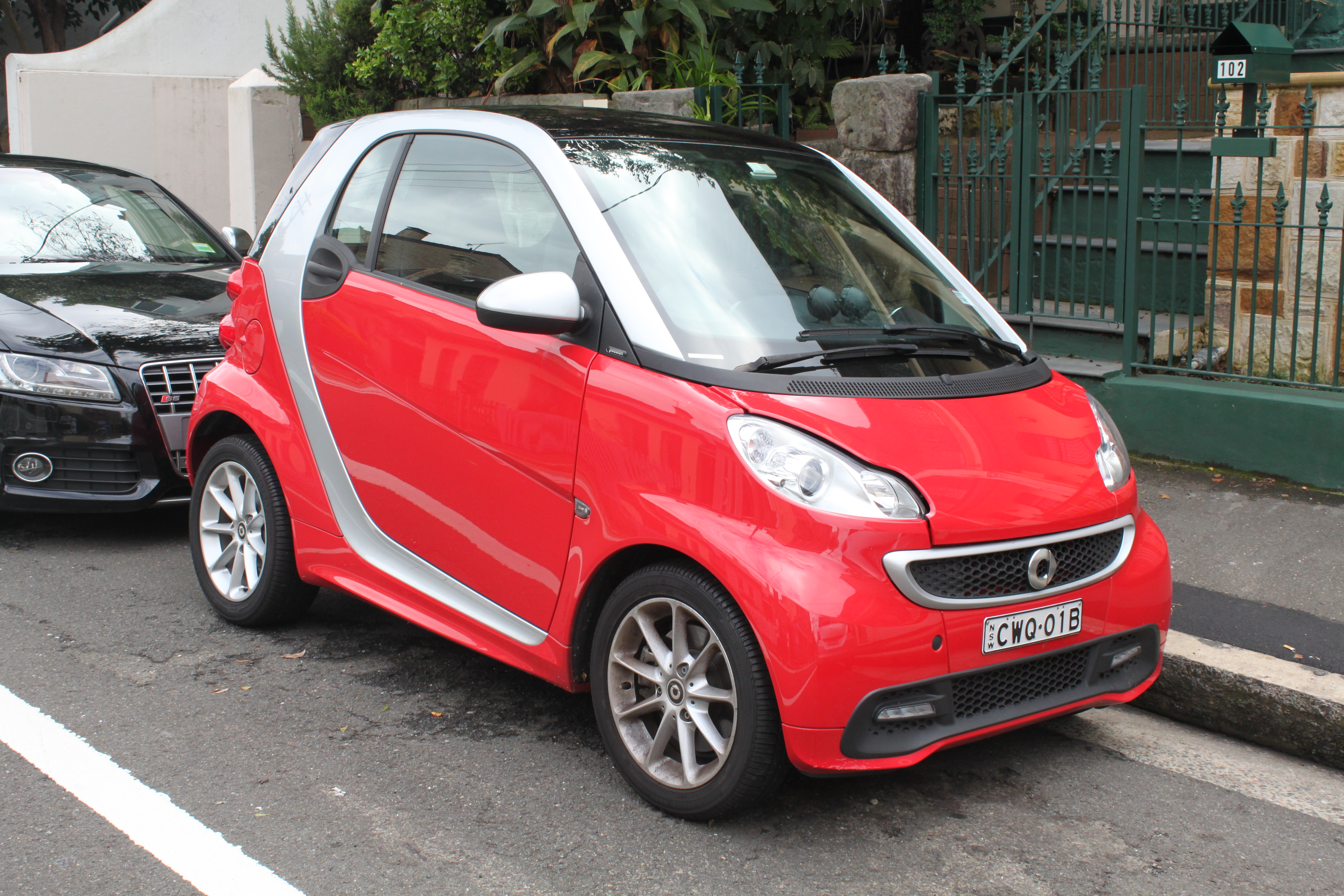 2014 smart fortwo (C451 MY14) passion final edition mhd coupe. Information about the final edition from: .